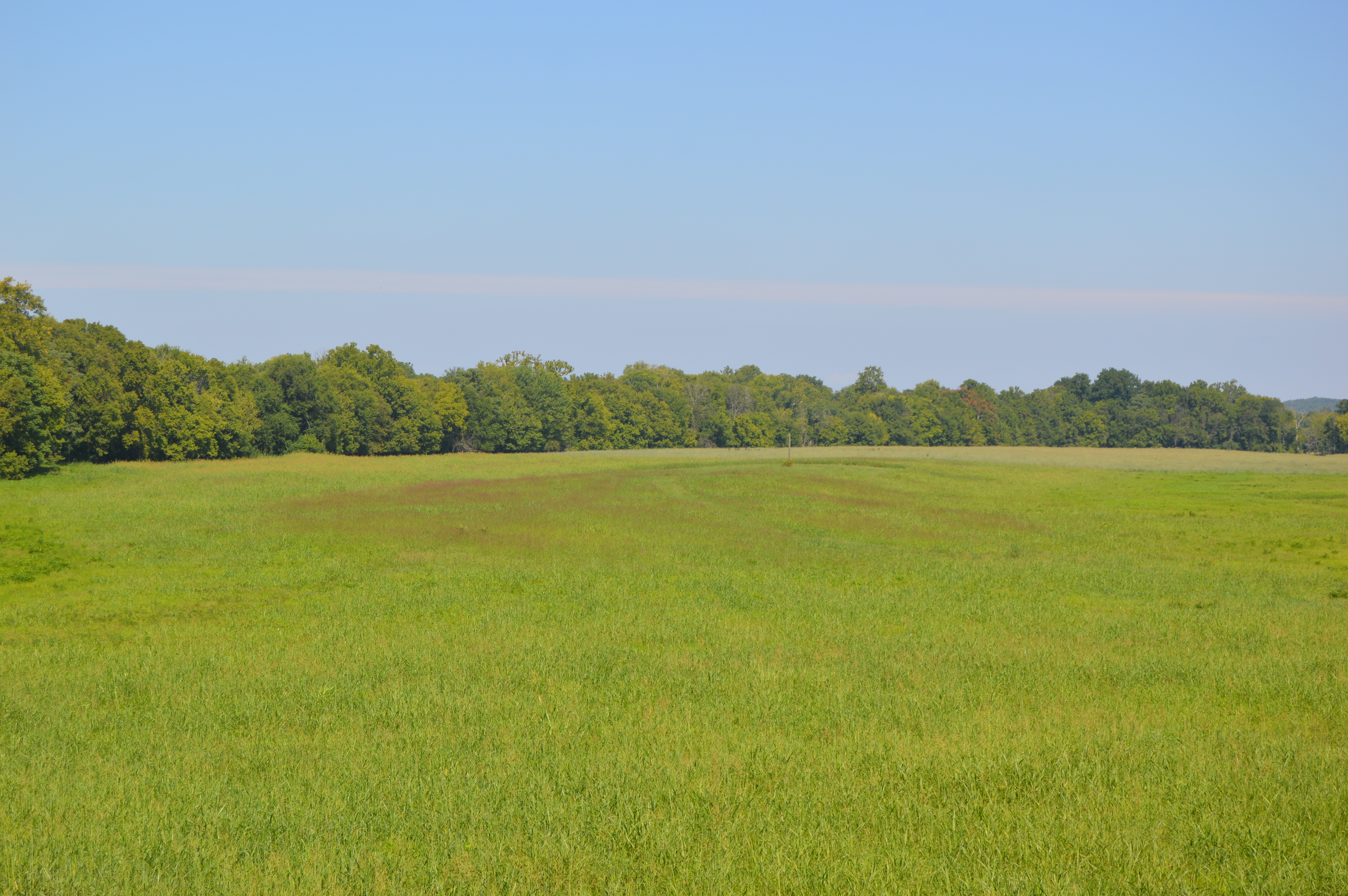 Fields at Staunton River Battlefield State Park, west of the park's central rail line, in Charlotte County, Virginia, United States. Land in the distance is the Wade Archeological Site, a significant archaeological site that is listed on the National Register of Historic Places.